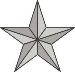 Service Star for subsequent US military awards